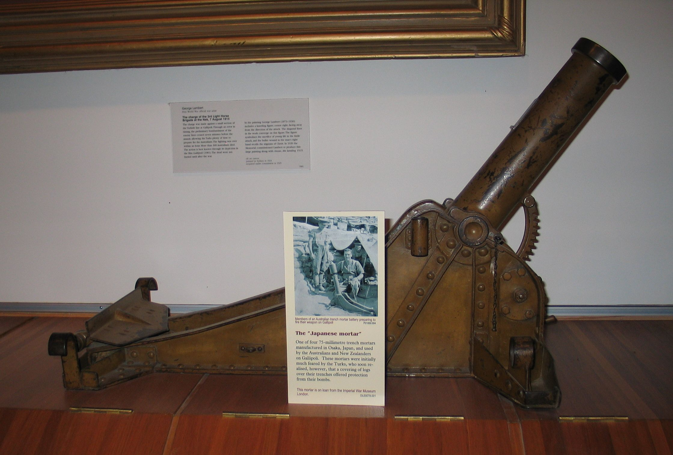 75-mm trench mortar in Australian War Memorial, Canberra, Australia. This mortar, manufactured in Osaka, Japan, was used by ANZAC forces at Gallipoli.